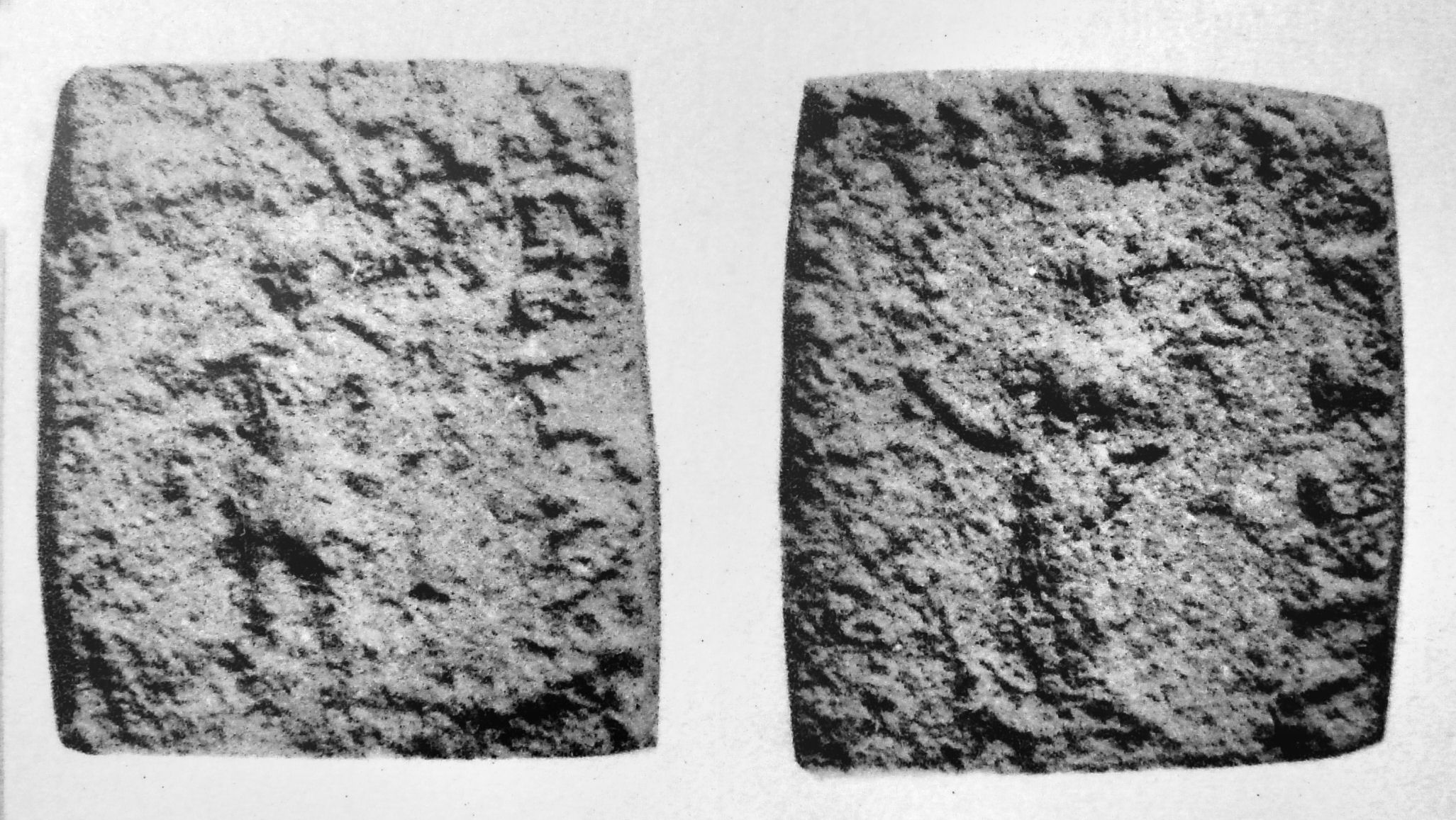 Peukolaos_coin